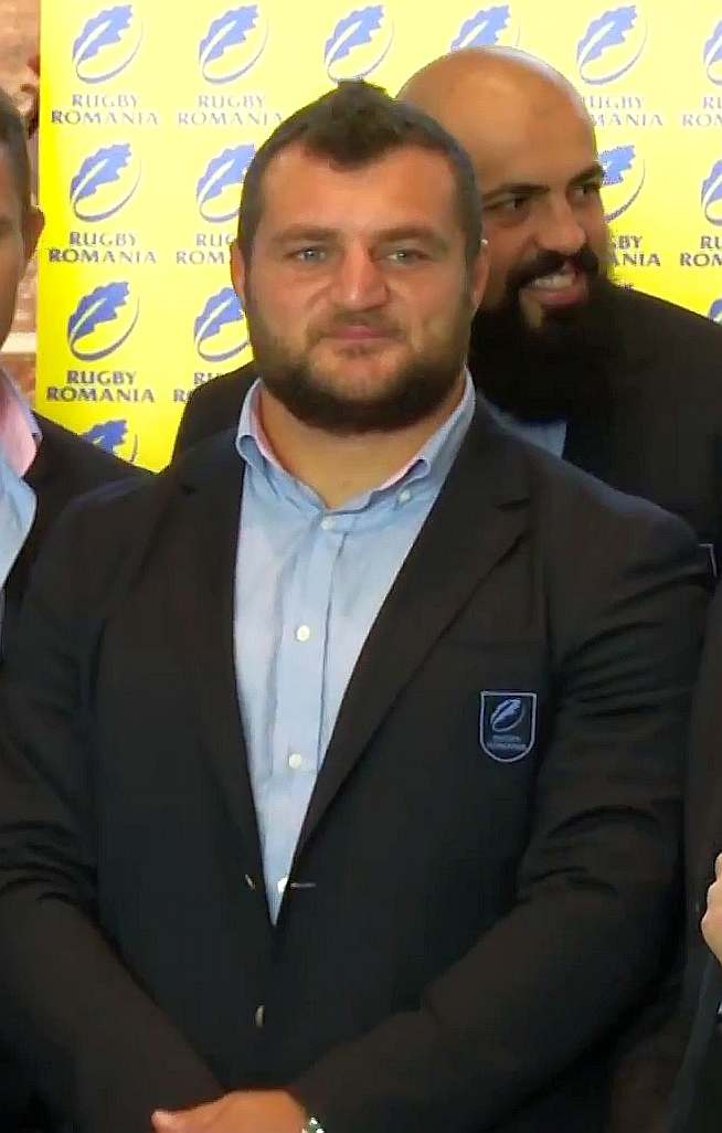 Georgian born, Romanian international rugby union player, Otar Turashvili, is seen during a press conference in September 2015 shortly before departing for the 2015 Rugby World Cup